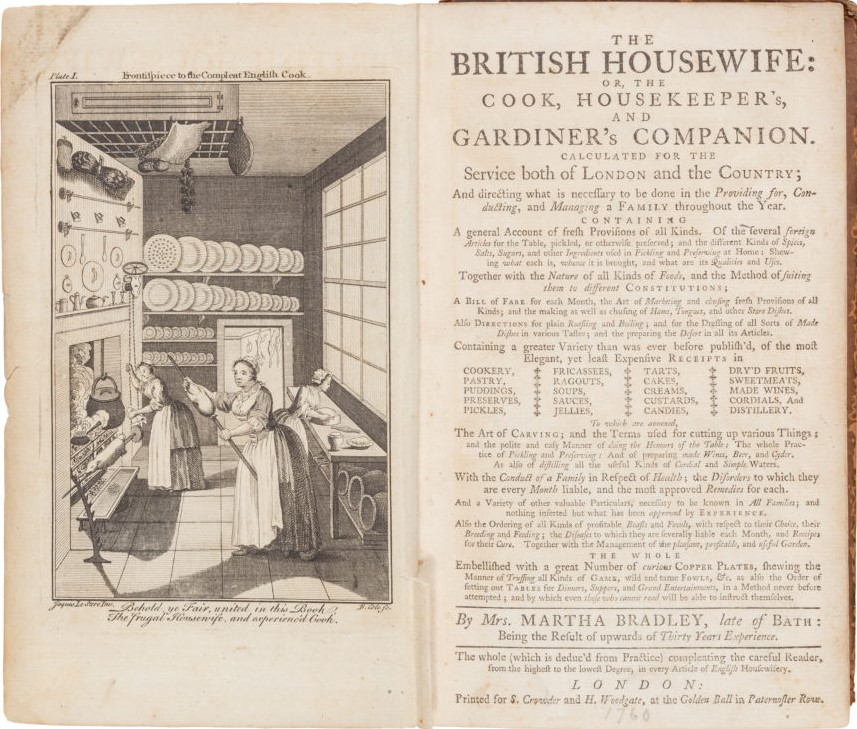 The British Housewife, Martha Bradley - Frontispiece and title page